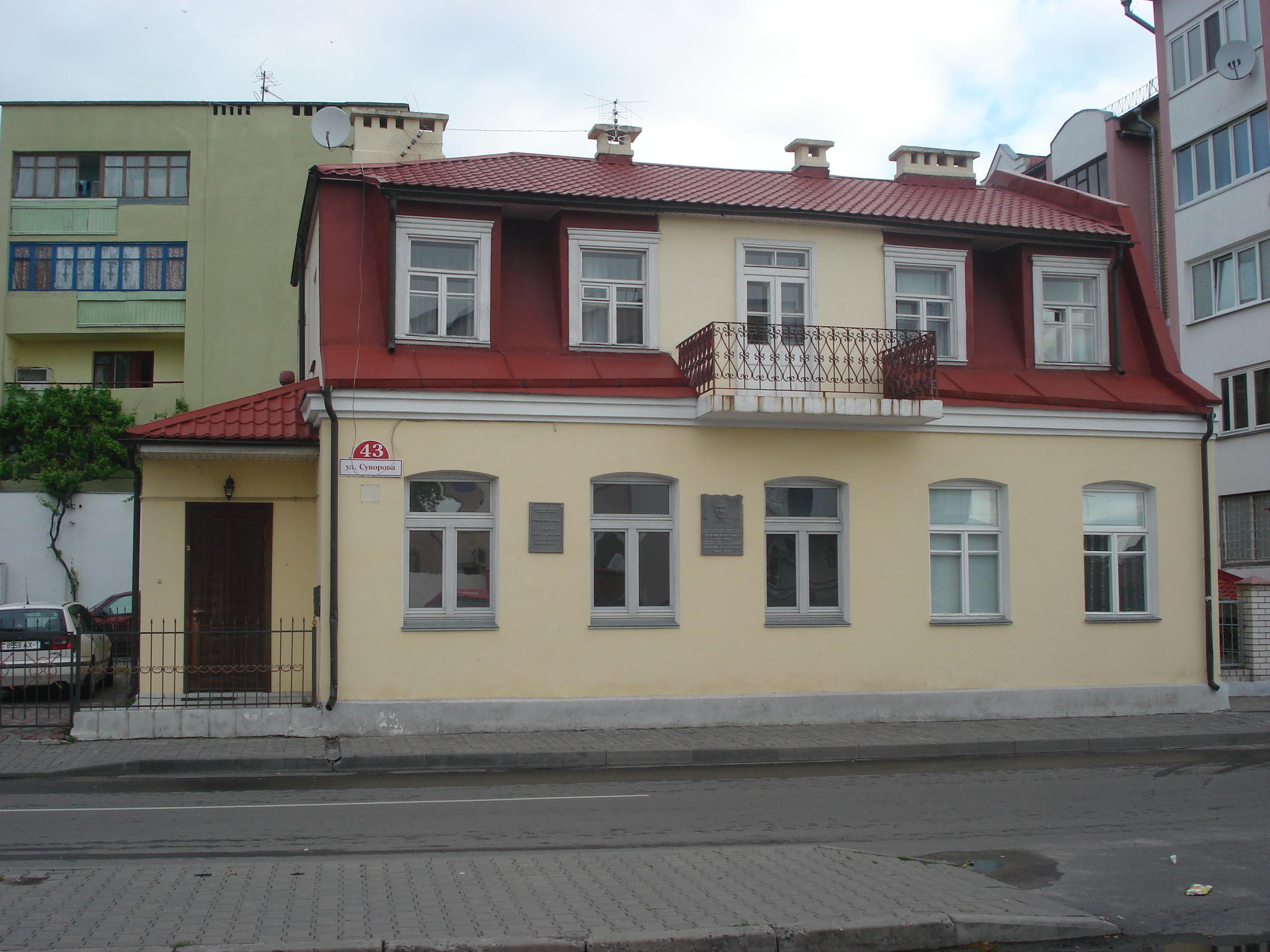 Ryszard Kapuściński Birthplace